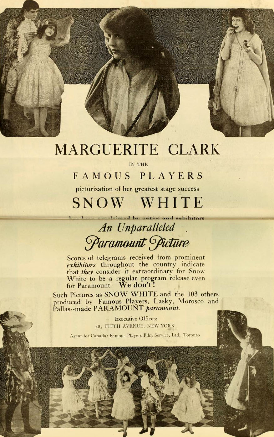 Advertisement inMoving Picture World